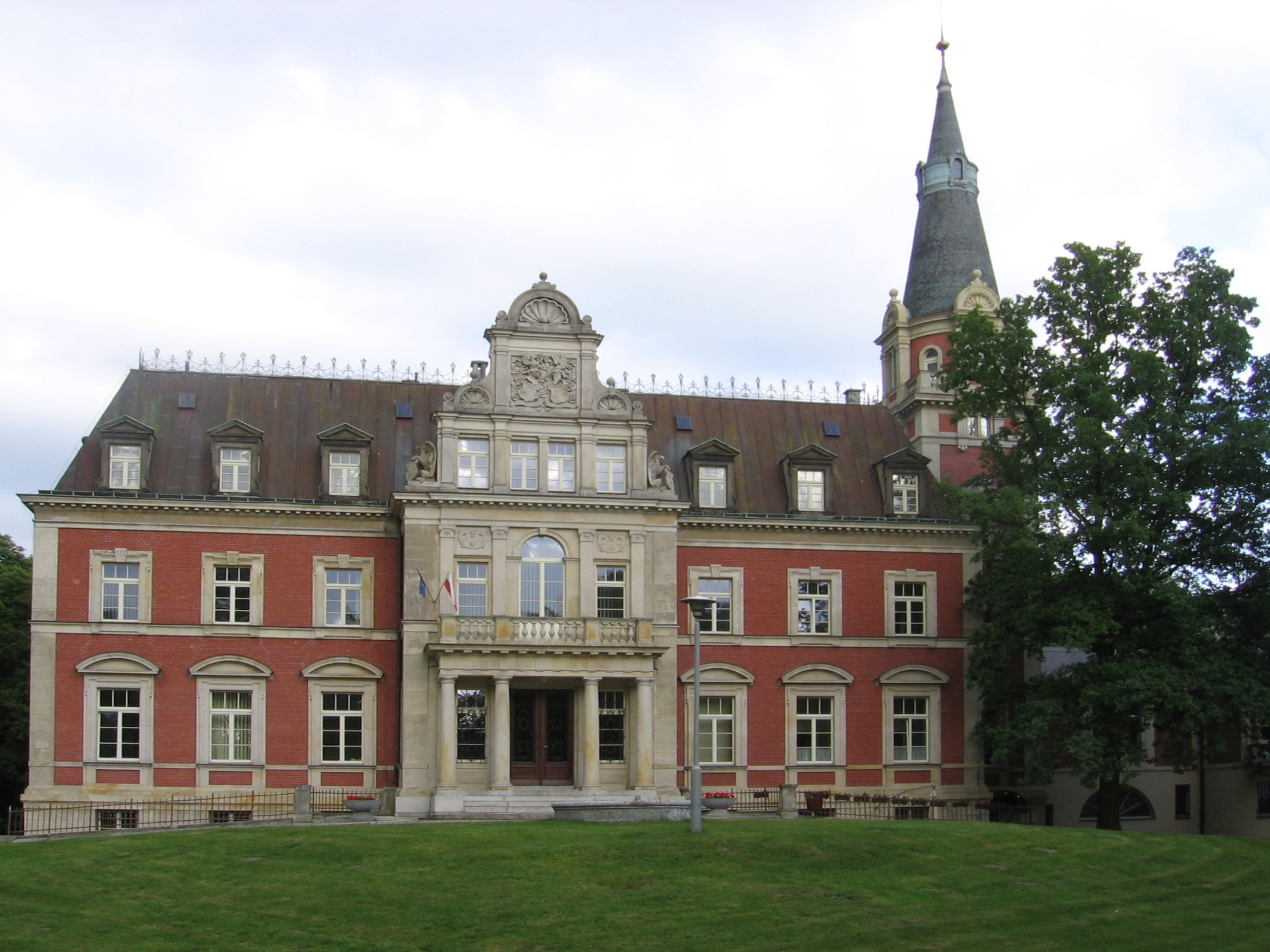 von Korn family mansion-house in Pawłowice, Wrocław, Poland left side right side daughter's mansion nearby